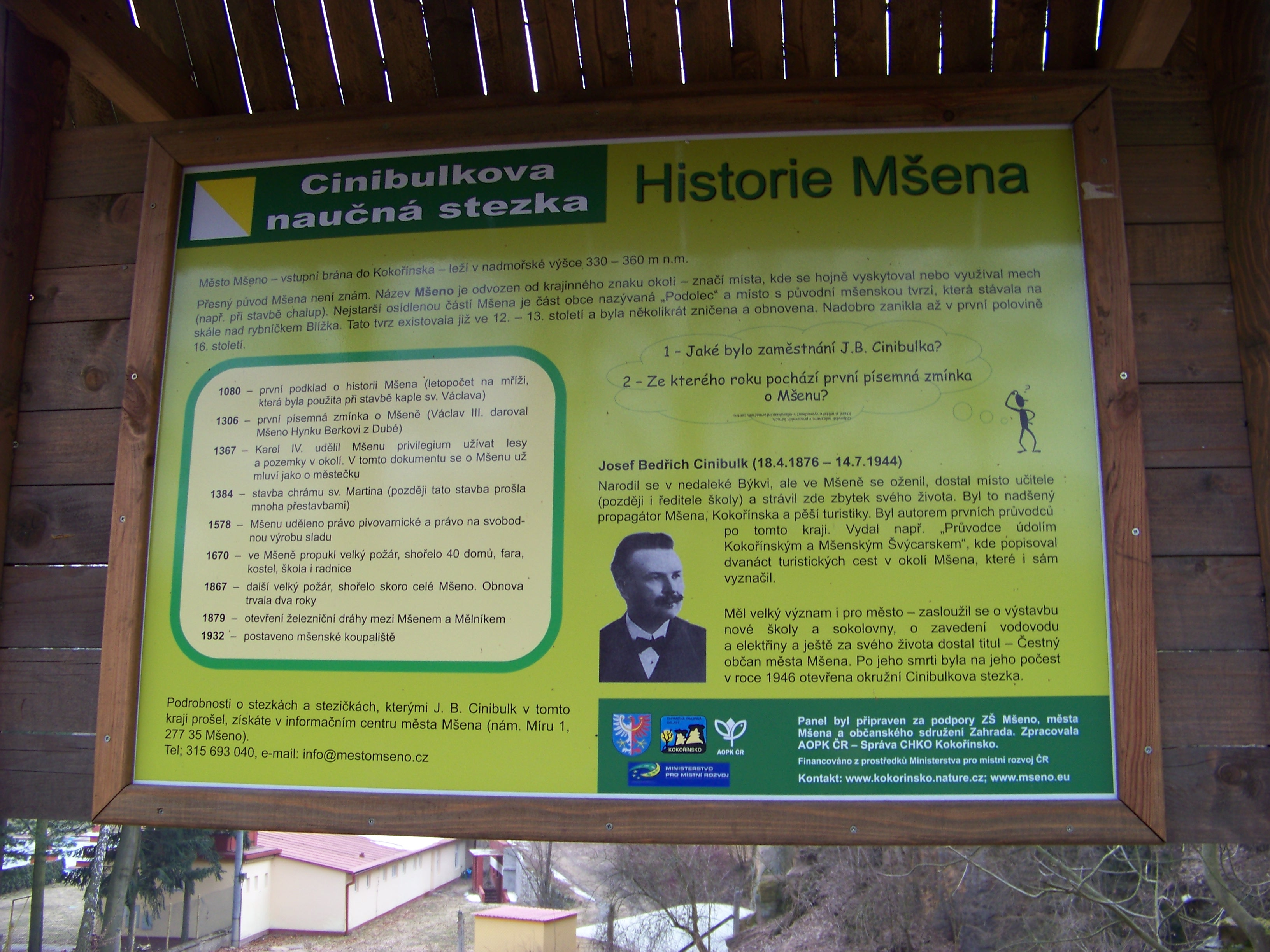 Mšeno, Mělník District, Central Bohemian Region, the Czech Republic. Cinibulk Path, an educational board about the history of Mšeno.